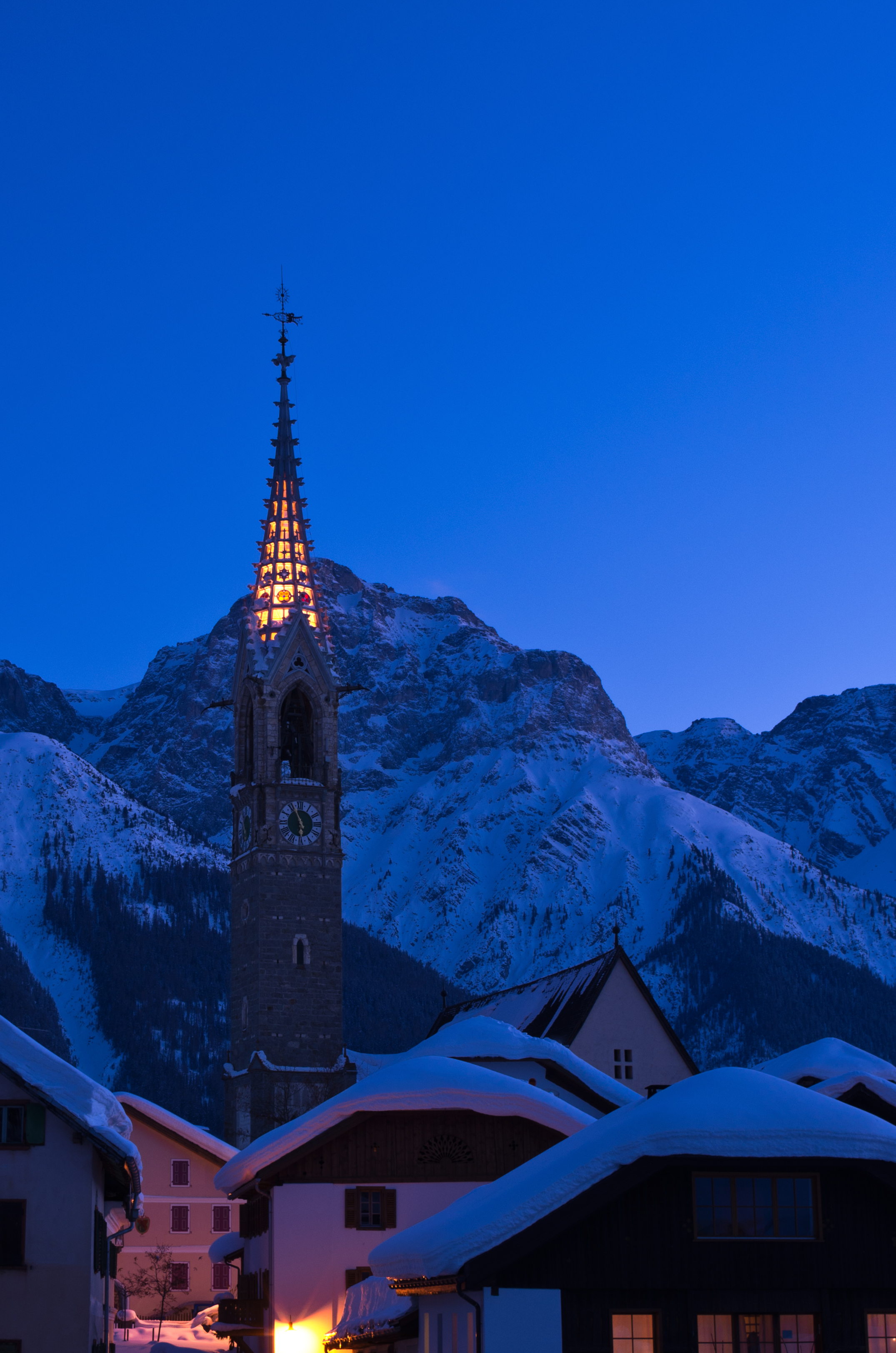 Evangelic church at sundown in a winter's night in Sent GR (CH)